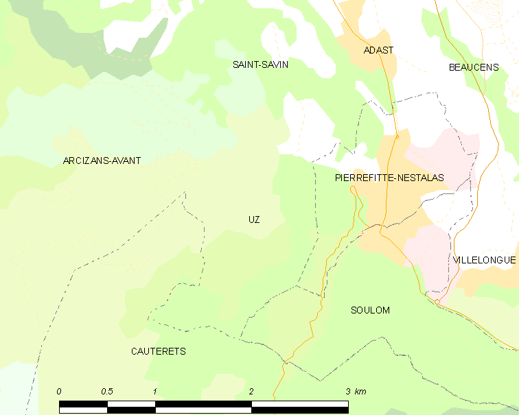 Map of French municipality